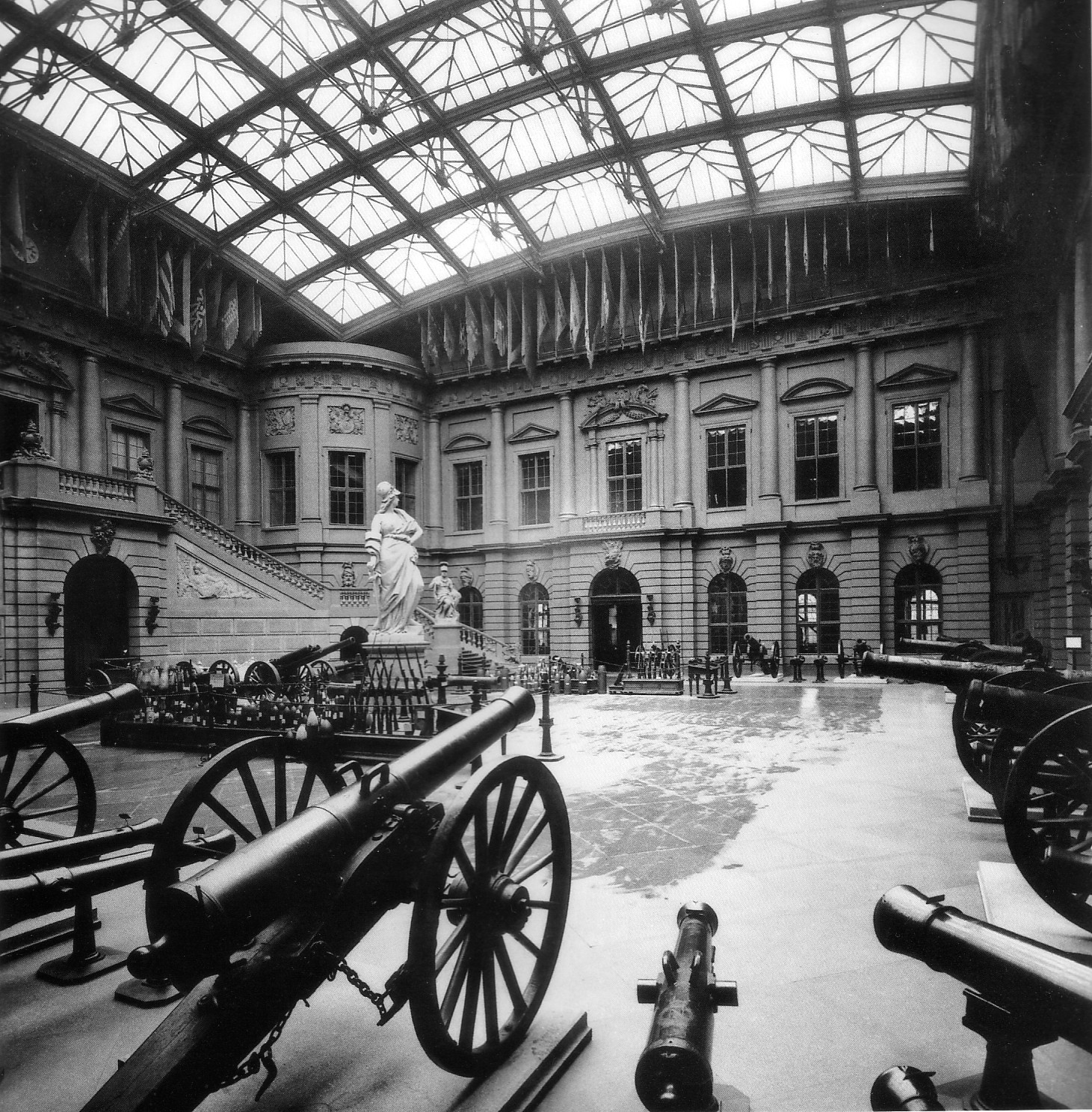 The Zeughaus in Unter den Linden in Berlin-Mitte (Germany). The light well.